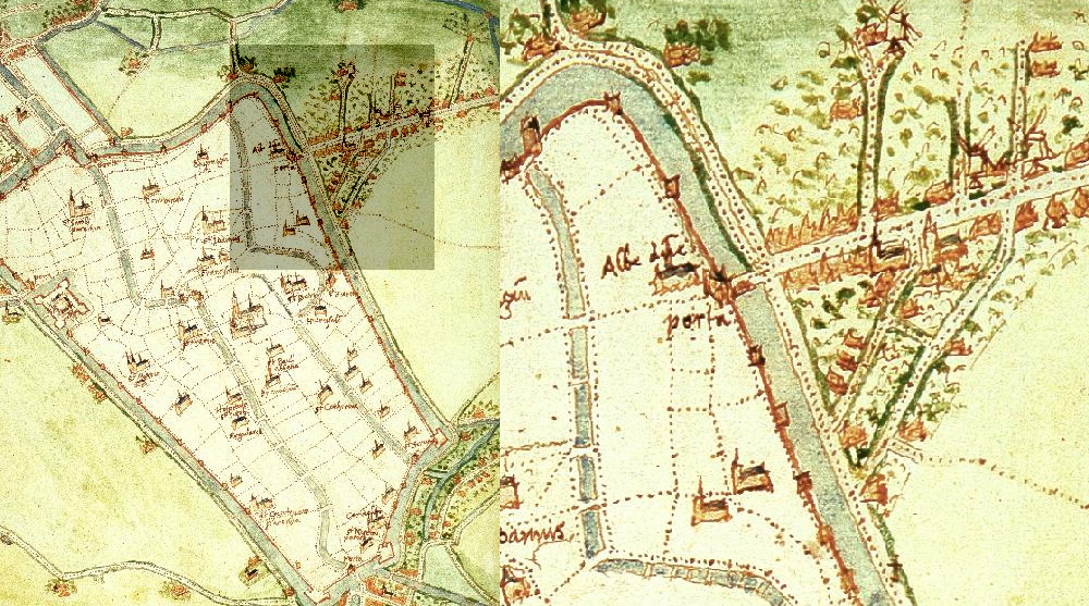 Map of Buiten-Wittevrouwen, Utrecht